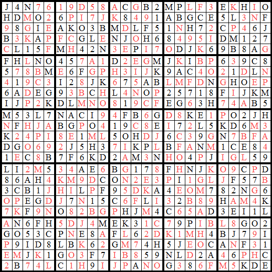 solution to Image:25by25sudoku.png